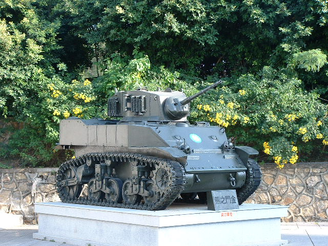 M5A1 "Bear of Kinmen" of the Republic of China Army at Guningtou Battle Museum.